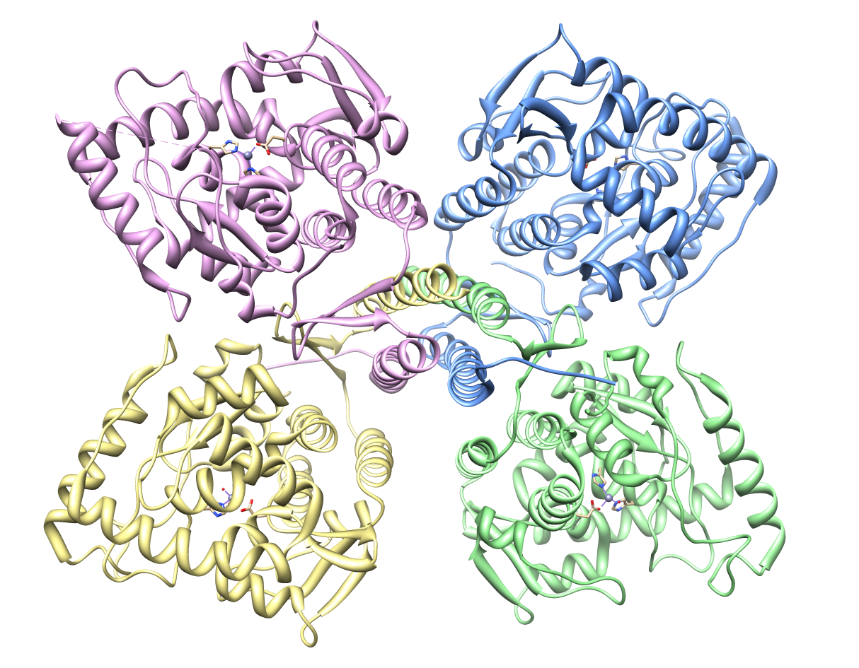 This image shows the tetramer of tyrosine hydroxylase with each subunits marked with the colours green, yellow, pink and blue.